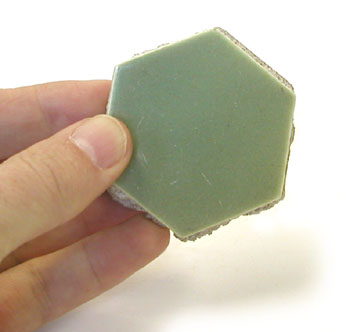 Example of a uranium containing ceramic bathroom tile from the Health Physics Instrumentation Collection of ORAU.